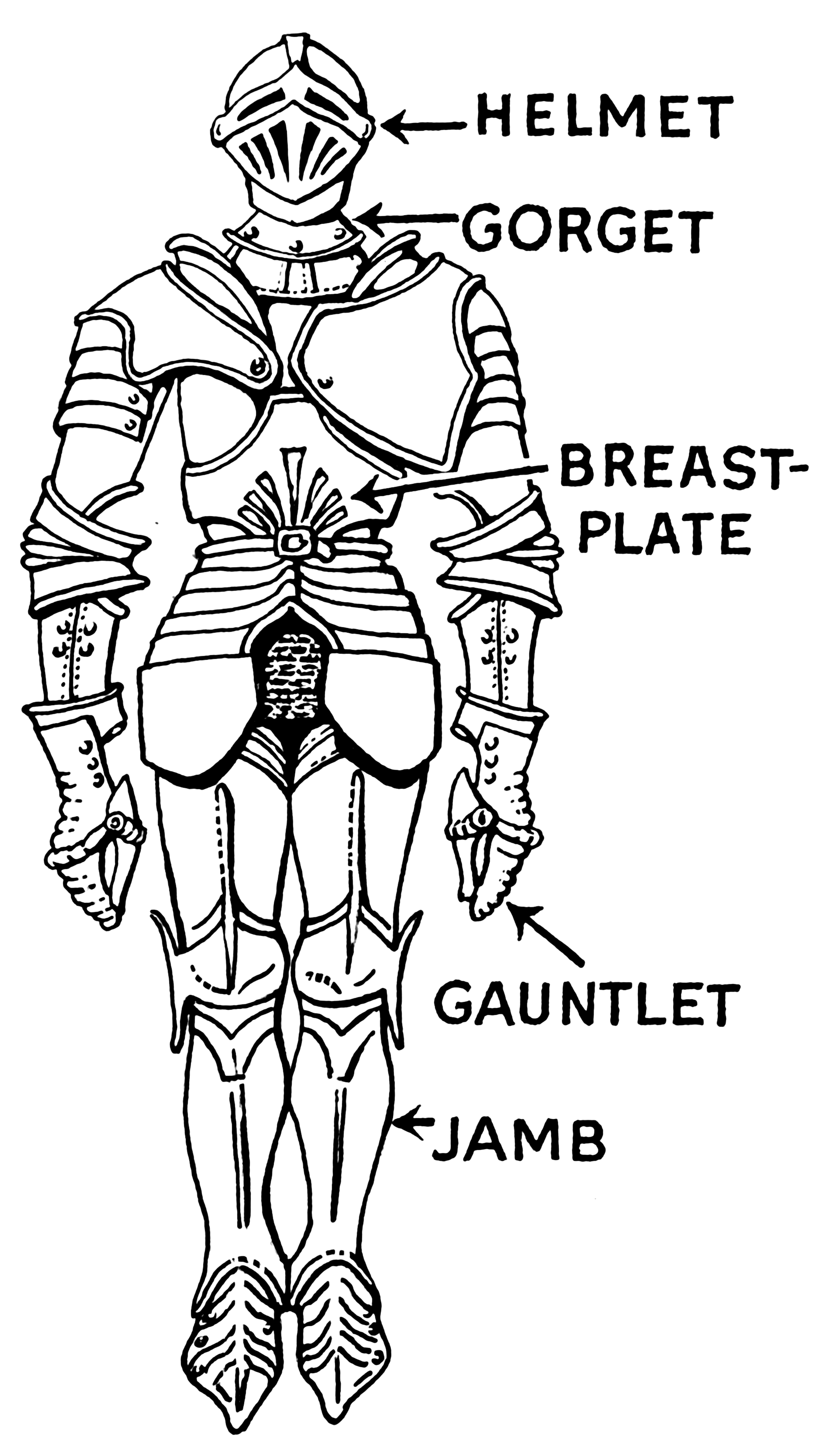 An illustration of armor.